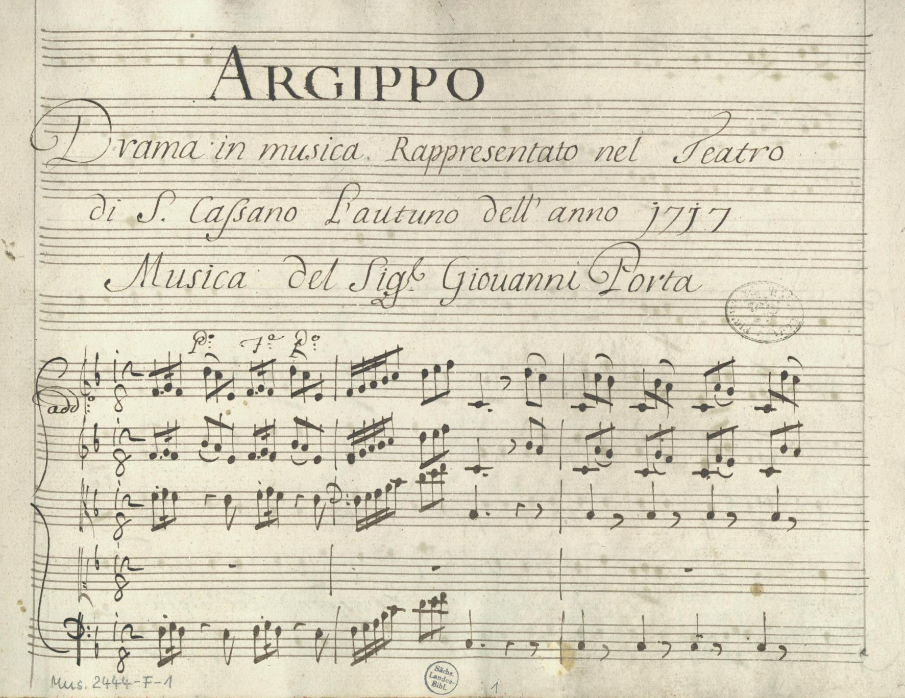 First page of manuscript Mus.2444-F-1 at Sächsische Landesbibliothek – Staats- und Universitätsbibliothek Dresden (SLUB): Giovanni Porta's setting of Domenico Lalli's Il gran Mogol = Argippo libretto, premiered in Venice, autumn 1717